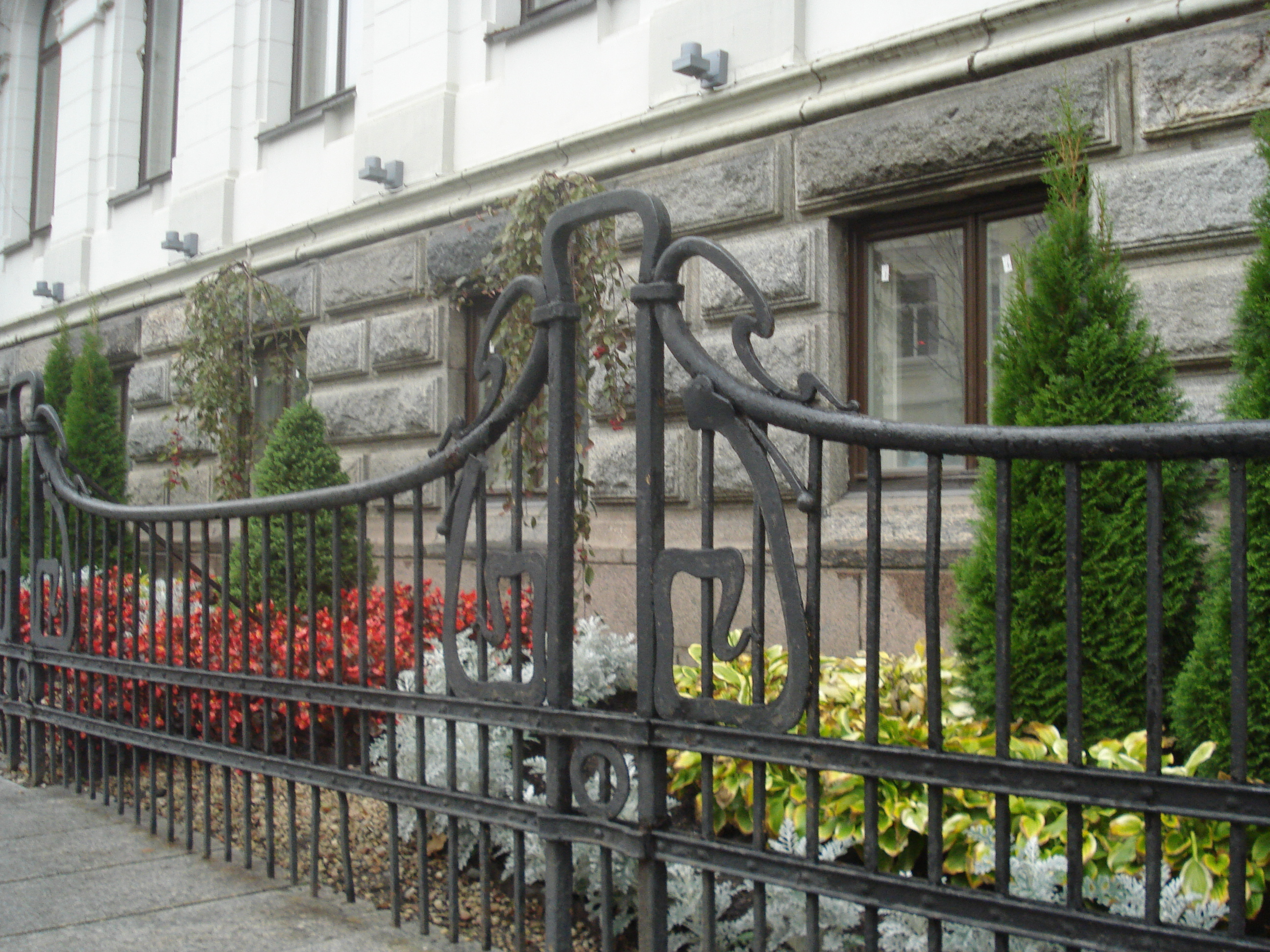 Art Nouveau grille at the Lithuanian Academy of Sciences (Gedimino prospektas 3) in Vilnius.